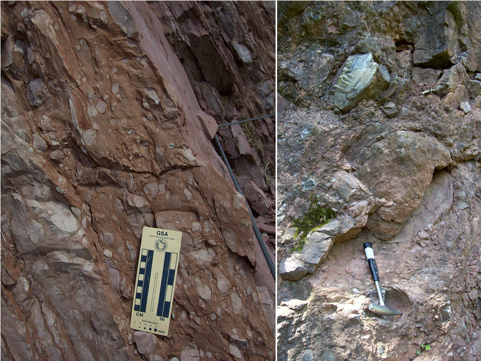 levels of breccia in ammonitico rosso facies (Italy, Lombardy)